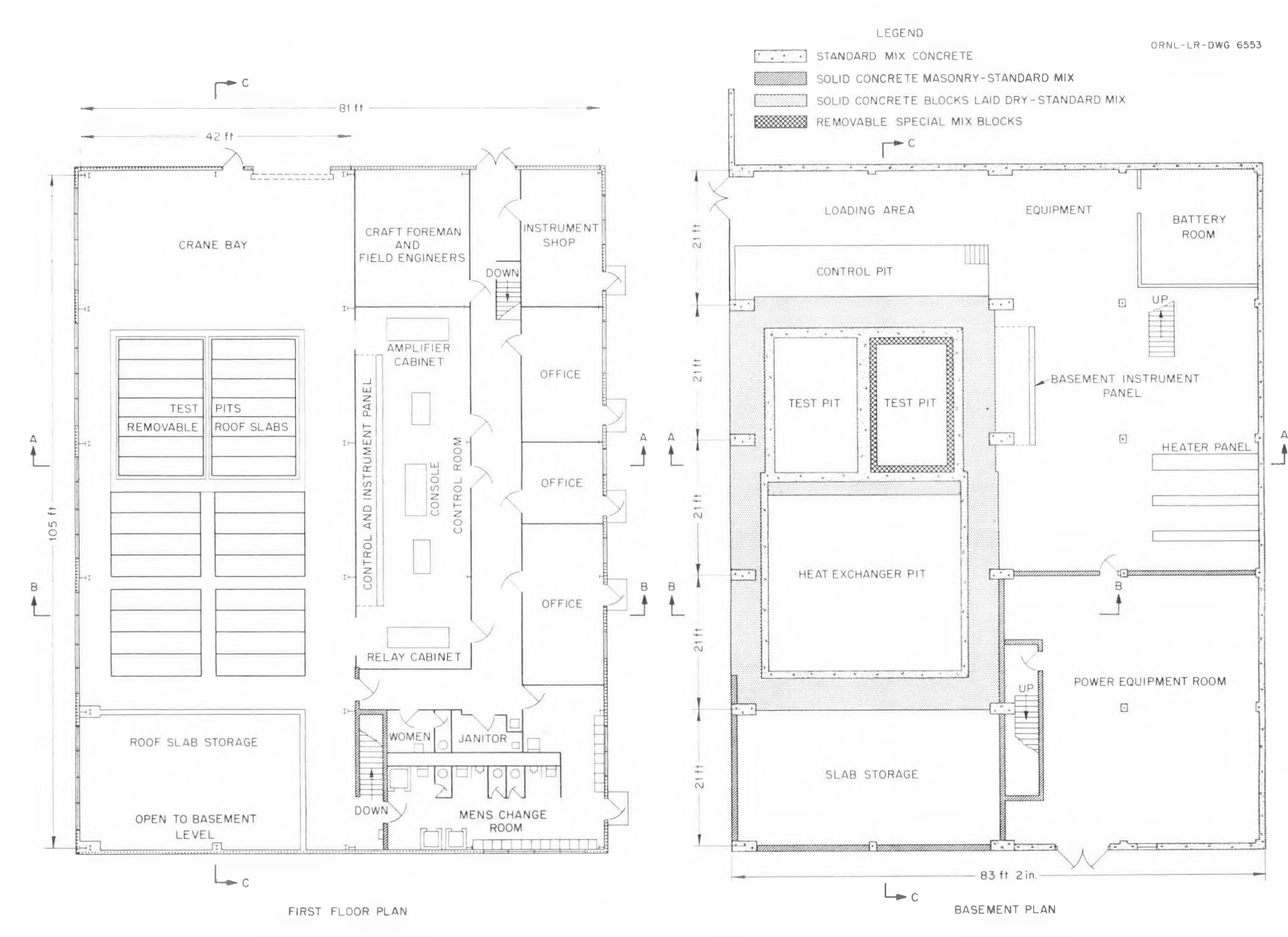 Building plan of the Aircraft Reactor Experiment Building from page 233 of ORNL-1845